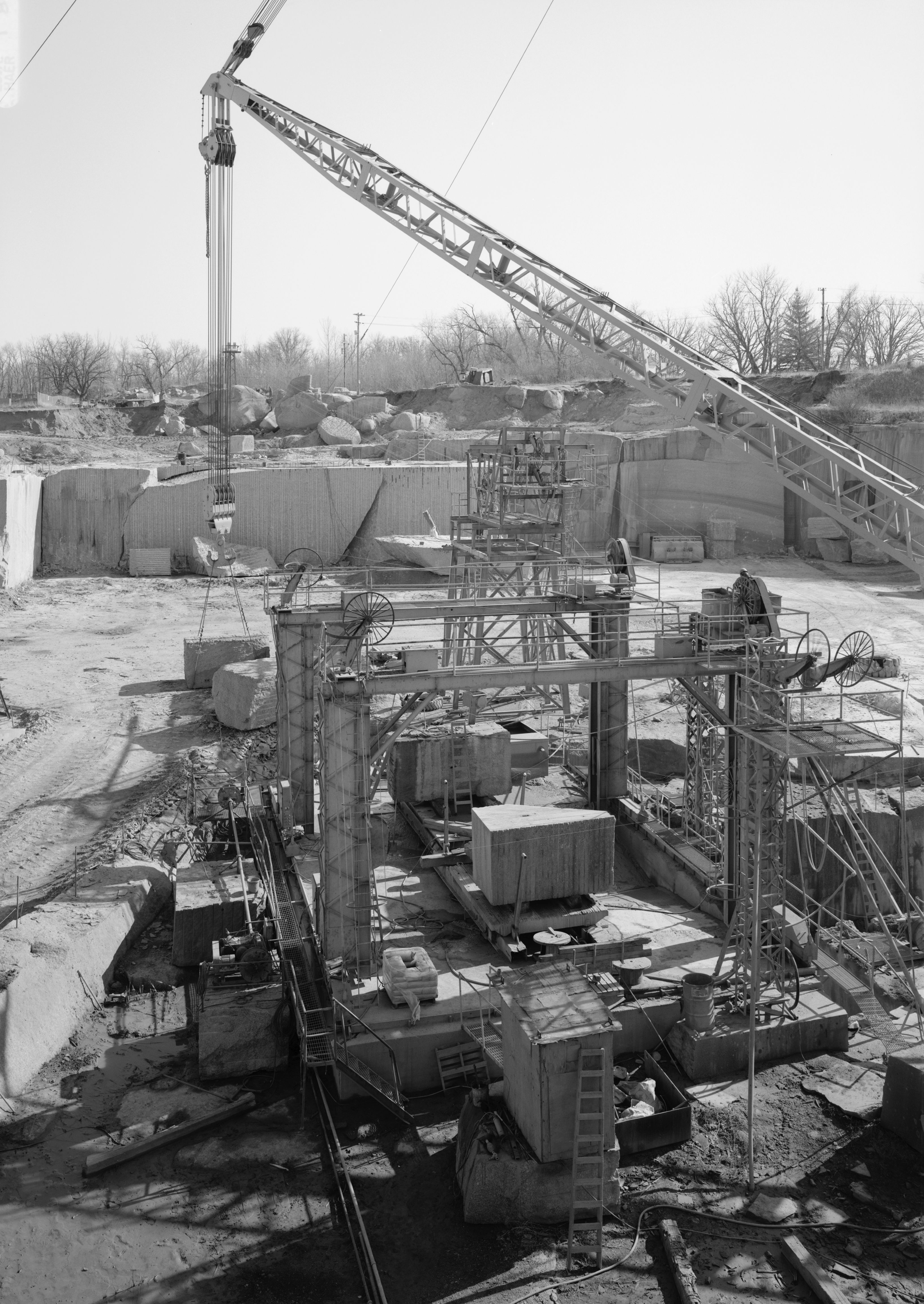 Clark & McCormack Quarry, Minnesota Highway 23 at Pine Street, Rockville, Stearns County, MN. General view of wire saw cutting operation looking north-east.